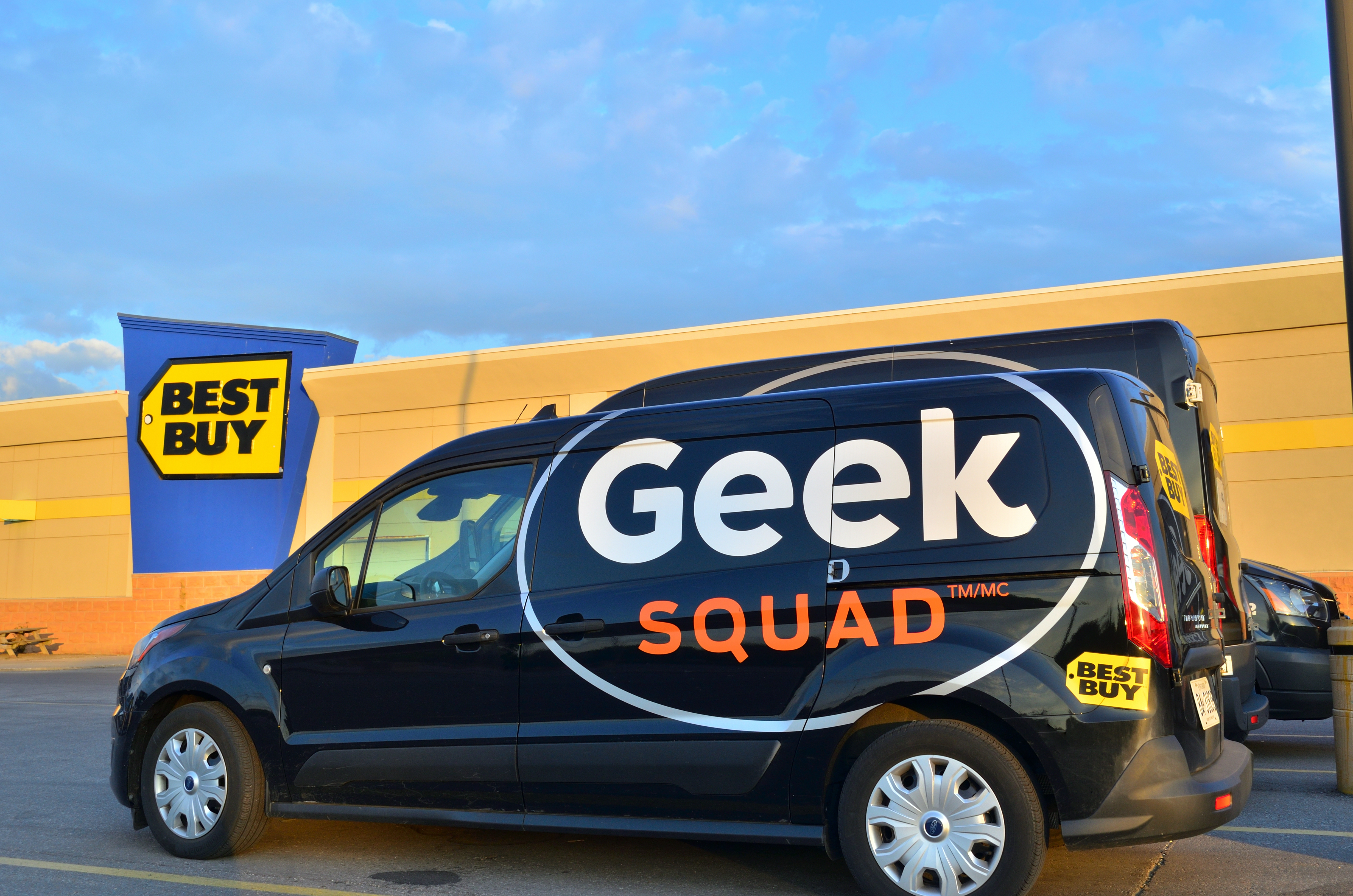 Best Buy Geek Squad at Markville